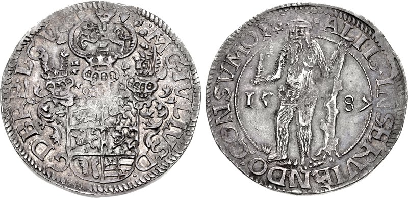 GERMANY, Braunschweig-Wolfenbüttel (Herzogtum). Julius. 1568-1589. AR Taler (41mm, 29.08 g, 10h). Goslar mint. Dated 1587. Crested coats-of-arms / Wildman. Welter 578; Davenport 9064. Good VF, toned. From a PCGS encapulation graded XF45.